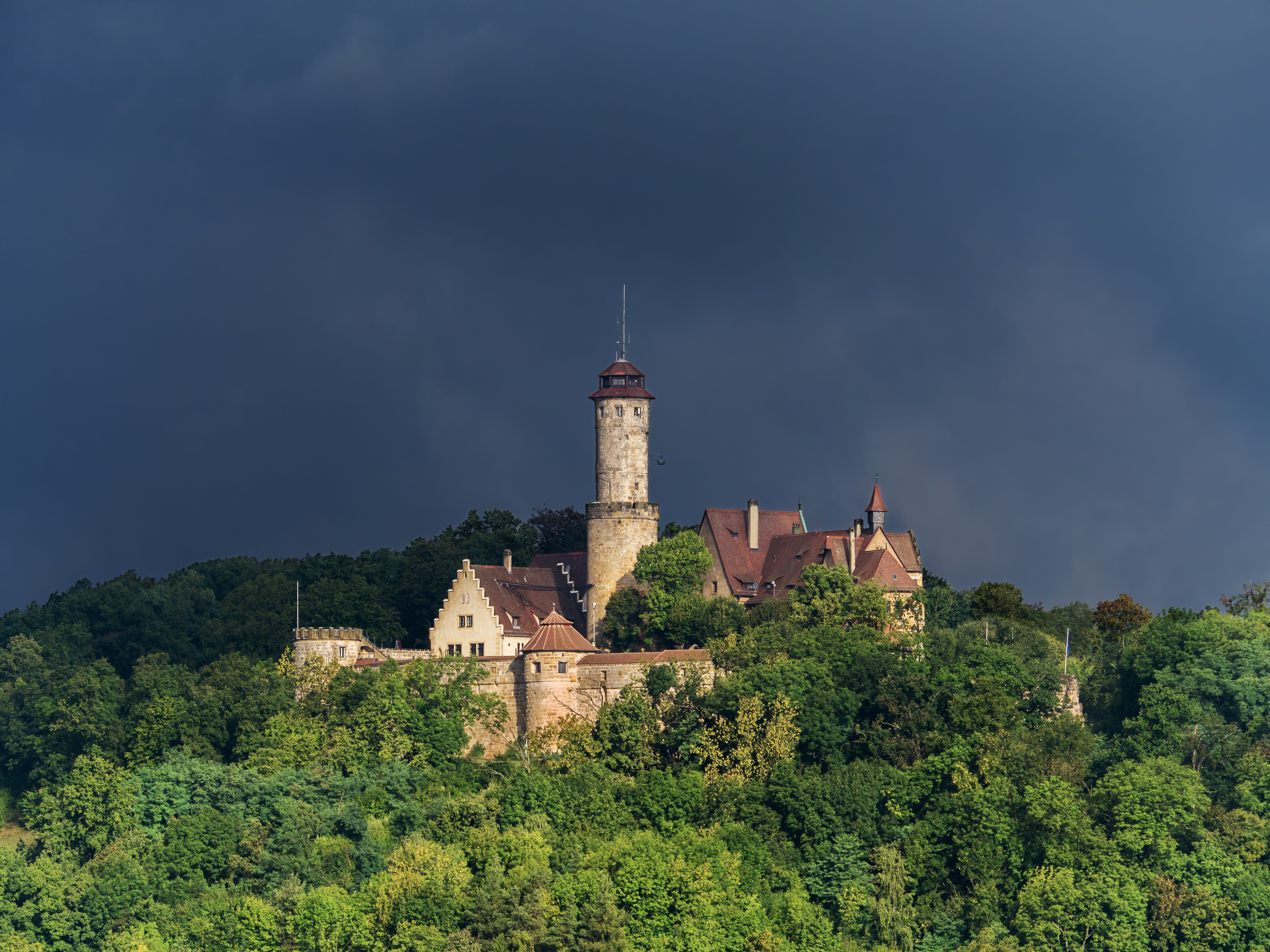 The Altenburg in Bamberg seen from the eastern direction